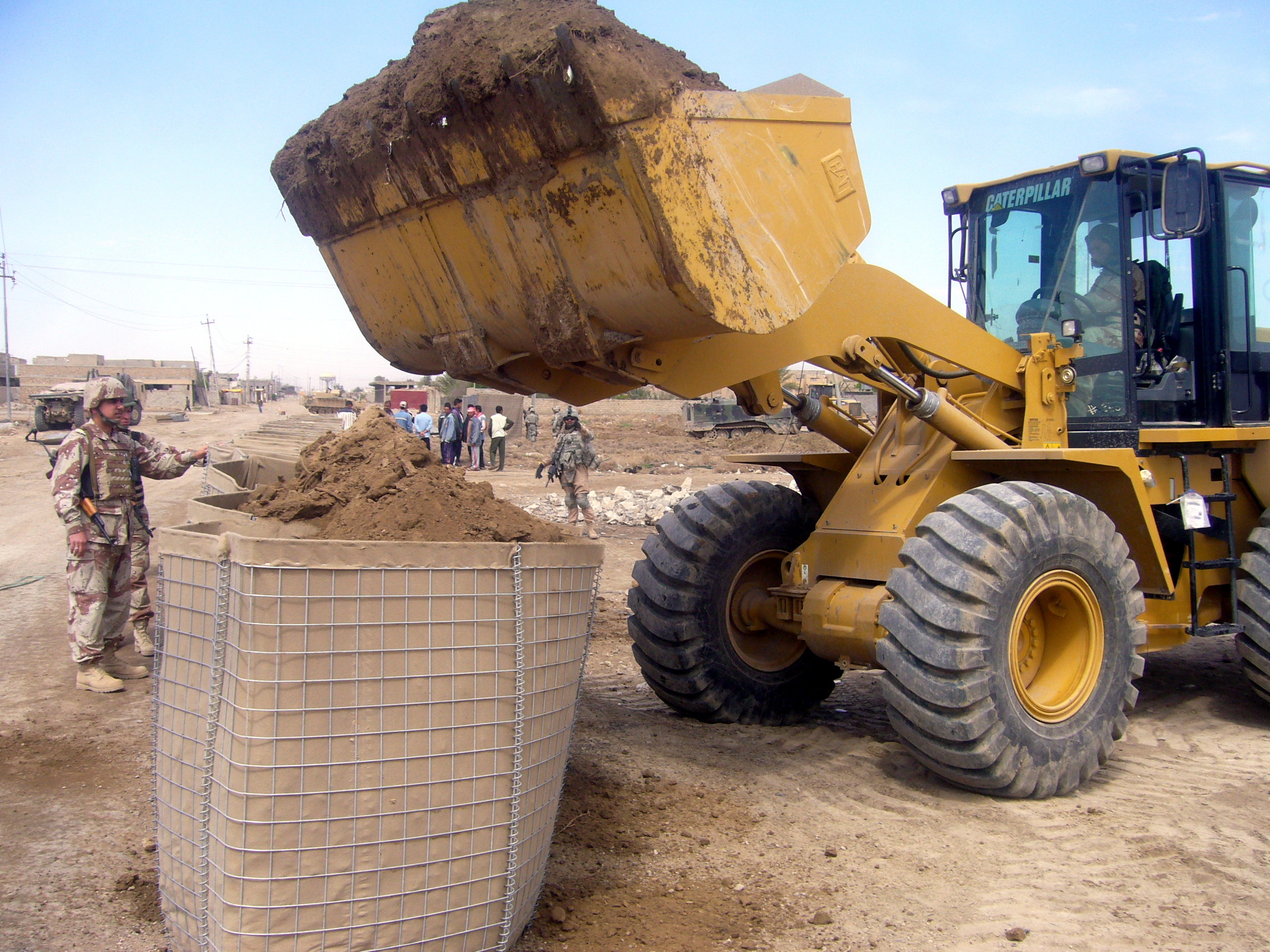 taken by Andy Patton 28mar07